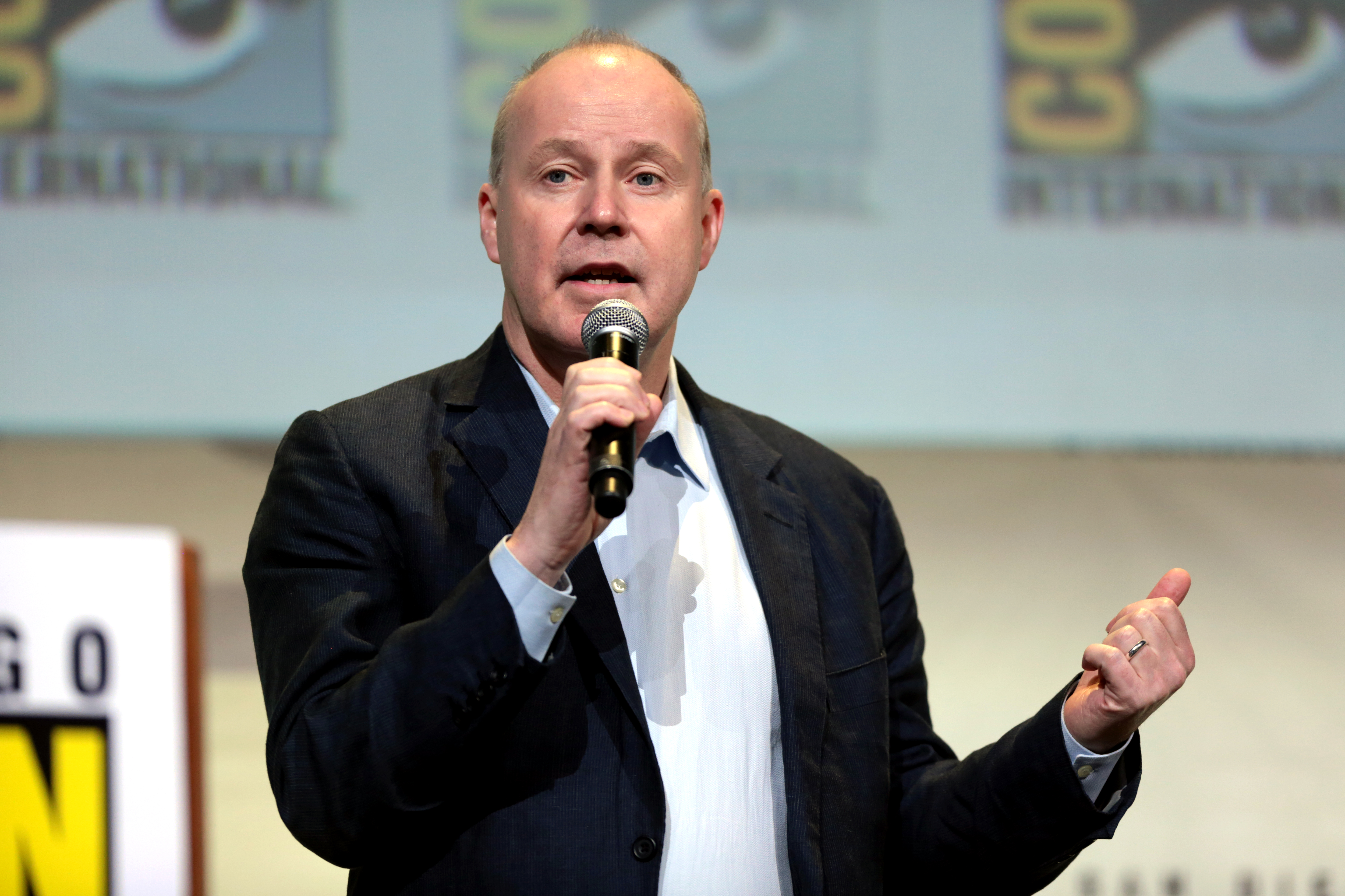 David Yates speaking at the 2016 San Diego Comic Con International, for "Fantastic Beasts and Where to Find Them", at the San Diego Convention Center in San Diego, California.